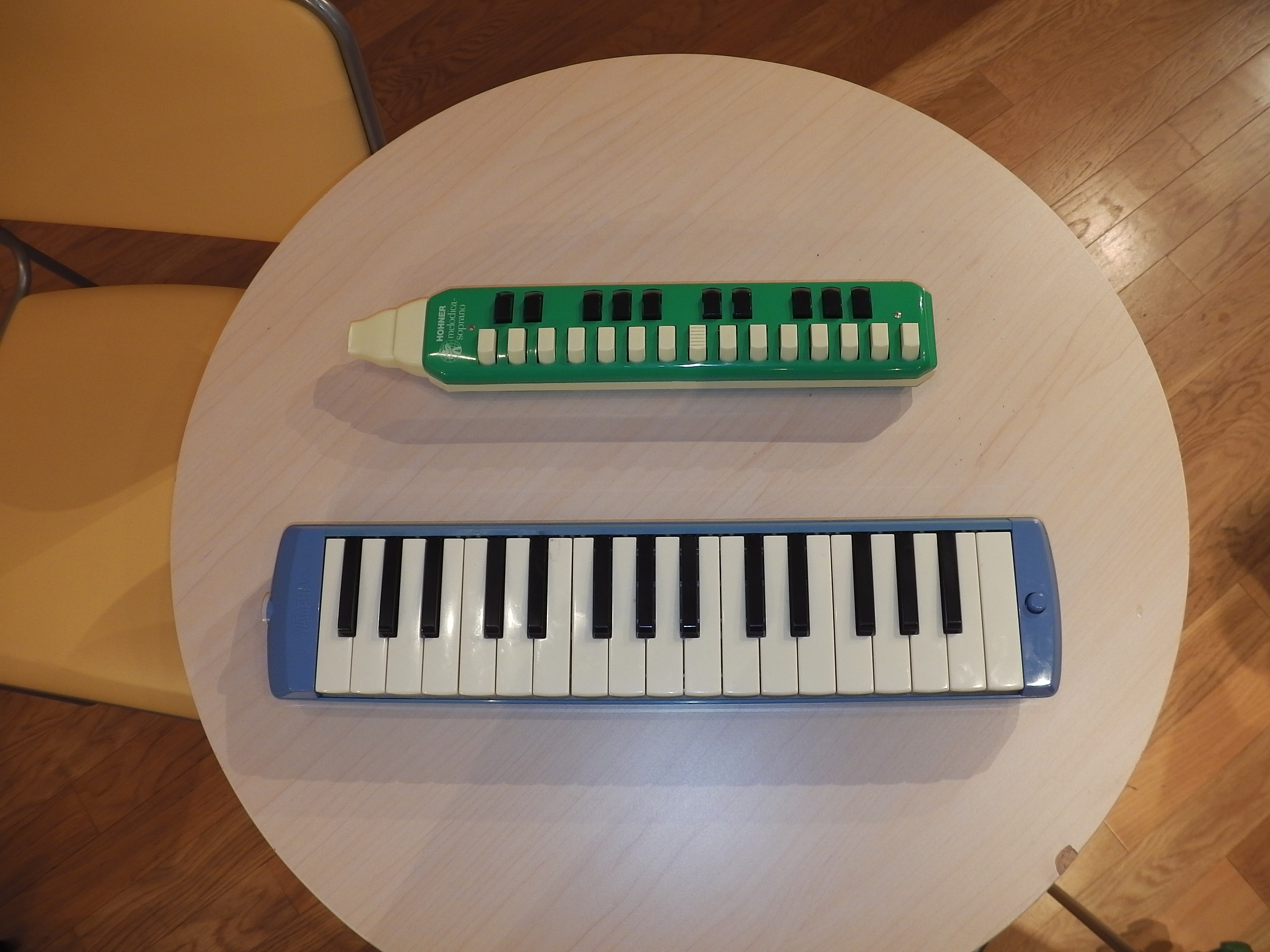 Hohner Melodica Soprano and Yamaha Pianica